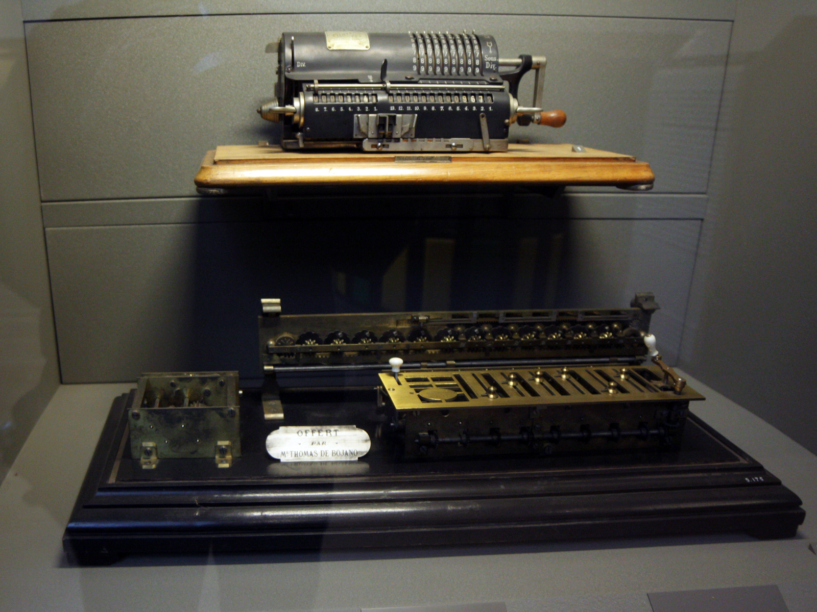 19th and early 20th centuries calculating machines from Musée des Arts et Métiers, Paris, France